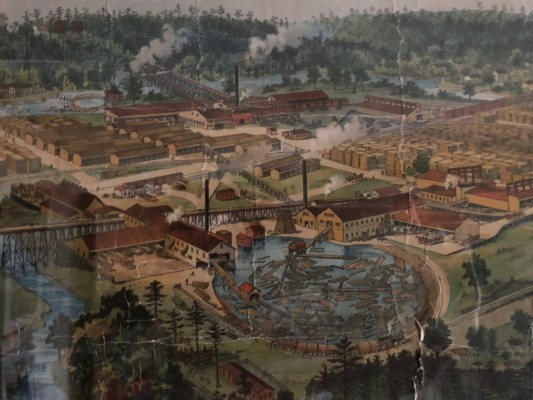 Missouri Lumber and Mining Co mill in Grandin, Missouri, from an article in American Lumberman magazine, 1903